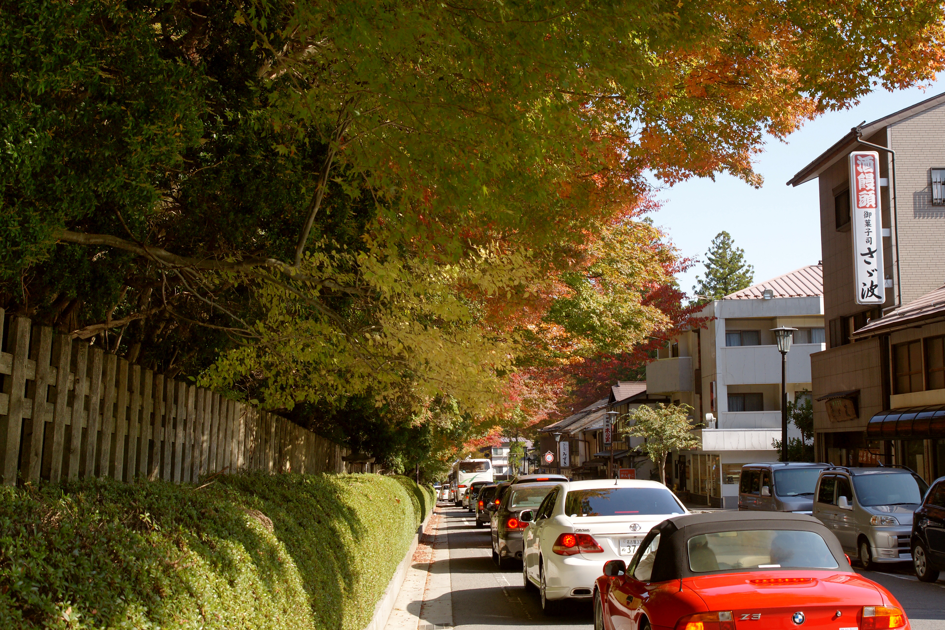 at Mount Kōya in Koya, Wakayama prefecture, Japan.